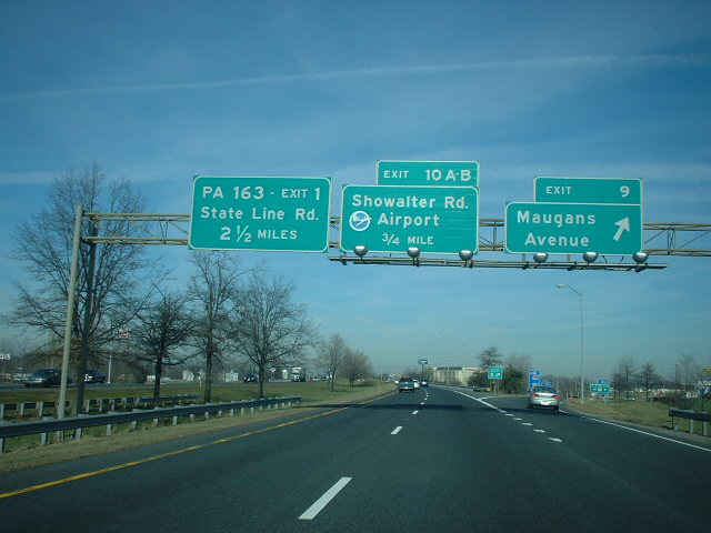 Interstate 81 - Maryland northbound at Maugans Avenue exit